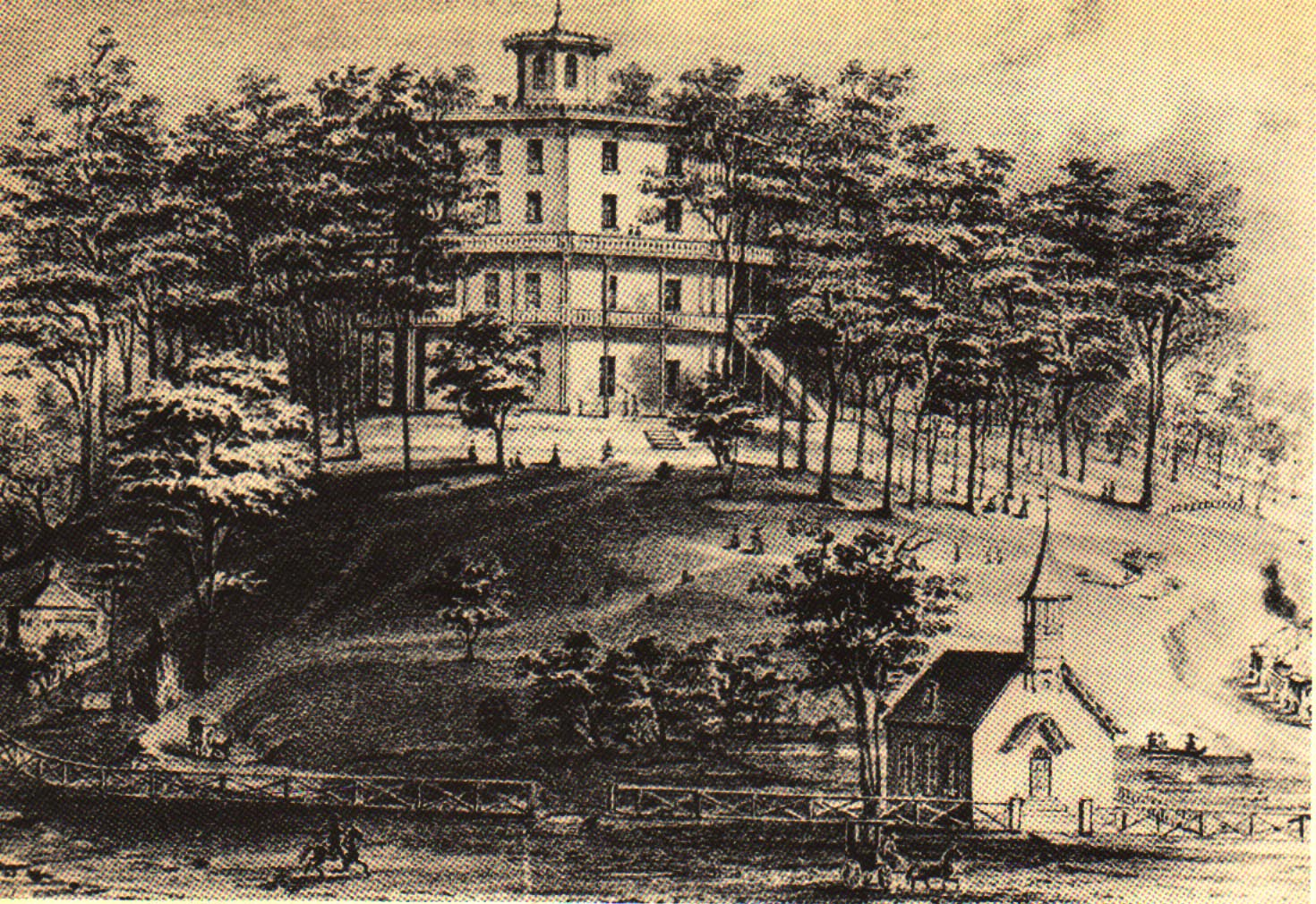 Sketch of The Octagon on Mount Saint Agnes' Campus Loyola Notre Dame Archives and Special Collections